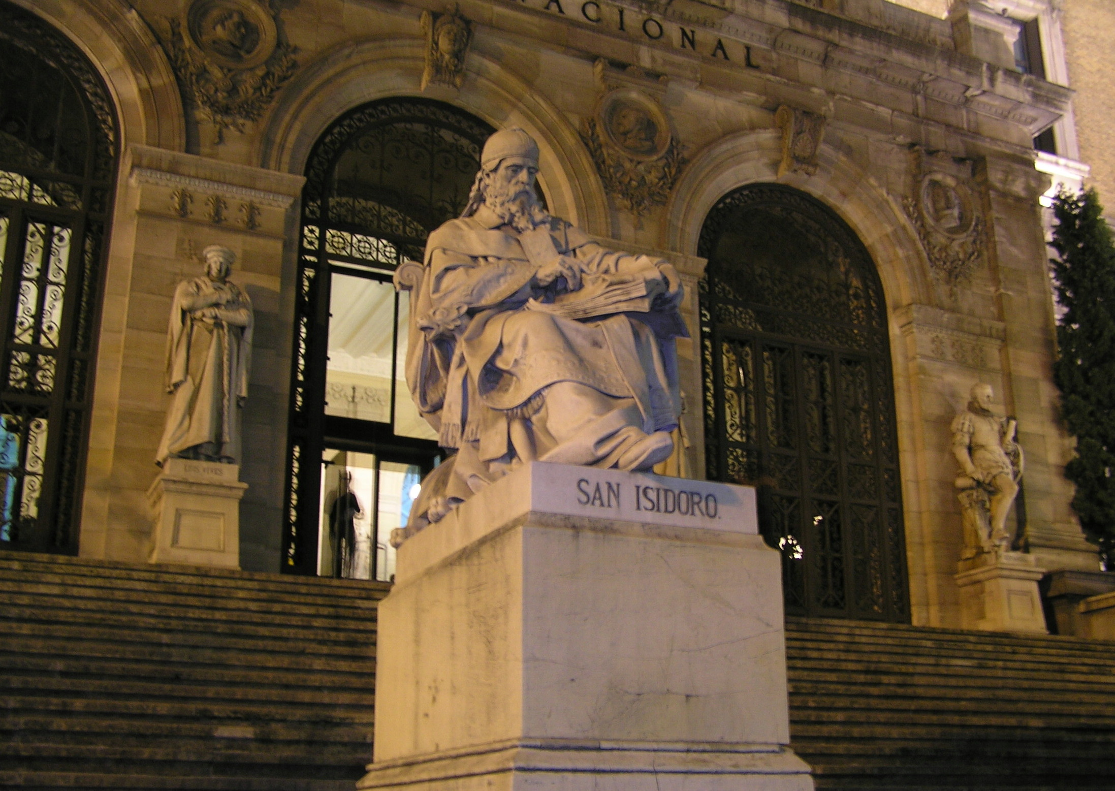 Statue of Isidore of Seville (c.560–636) at the entrance staircase of the National Library of Spain, in Madrid. Sculpted in Italian white marble by José Alcoverro y Amorós (1835–1910) in 1892.